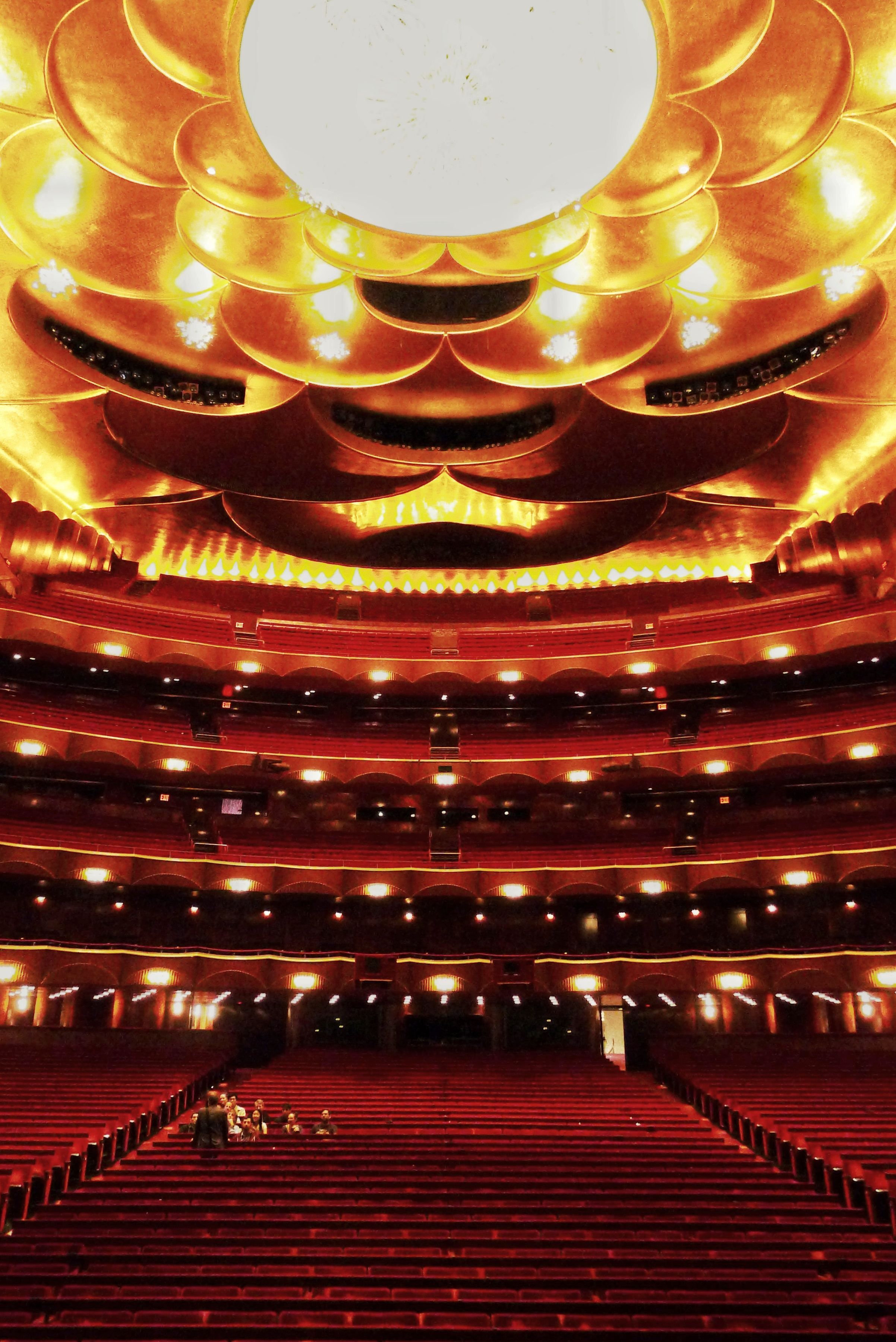 Metropolitan Opera - OHNY 2016 - Opera house interior Site: Metropolitan Opera